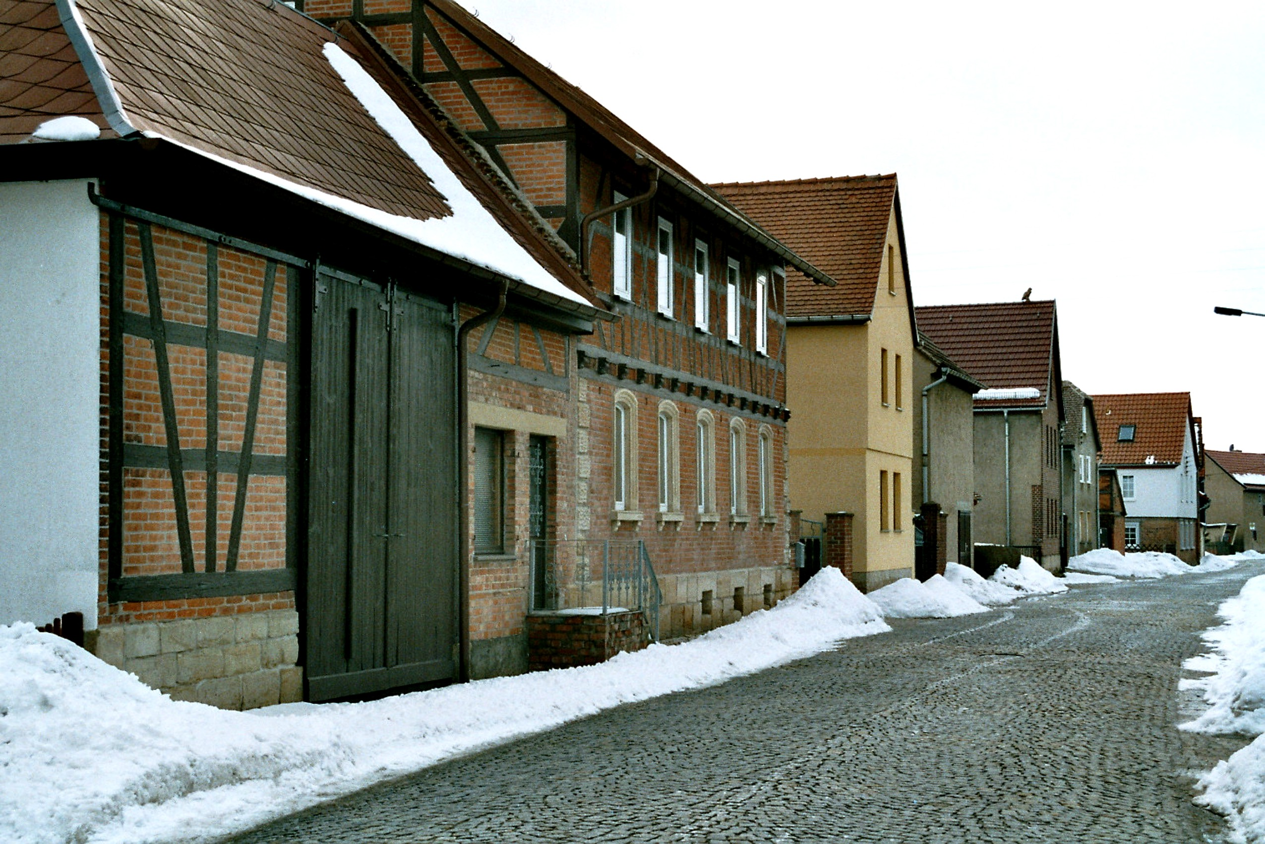 The village street